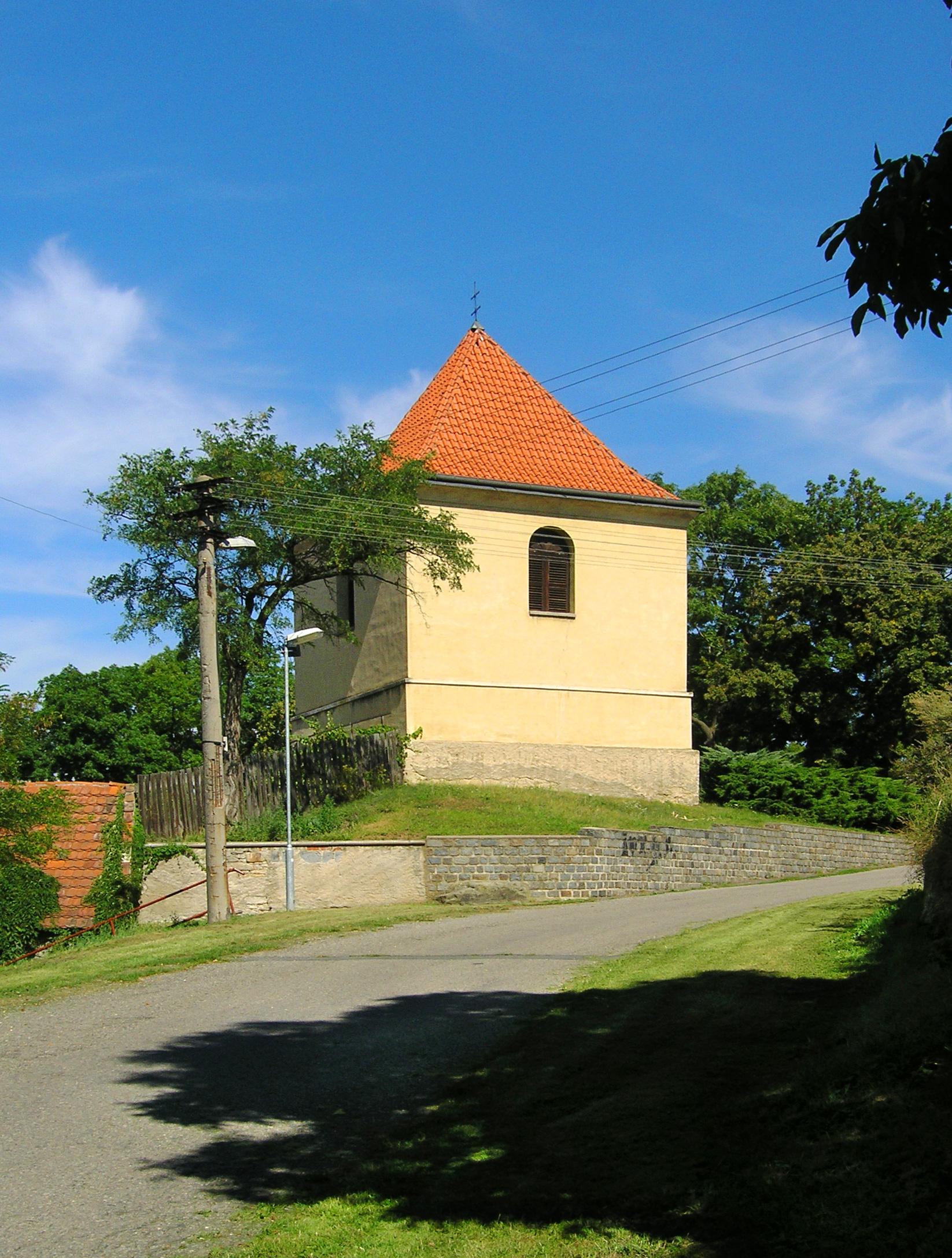 Bell tower in Sluhy, Czech Republic